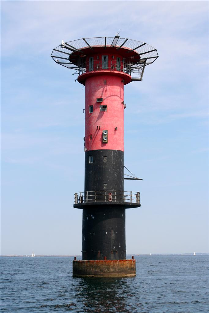 The lighthouse Trubaduren